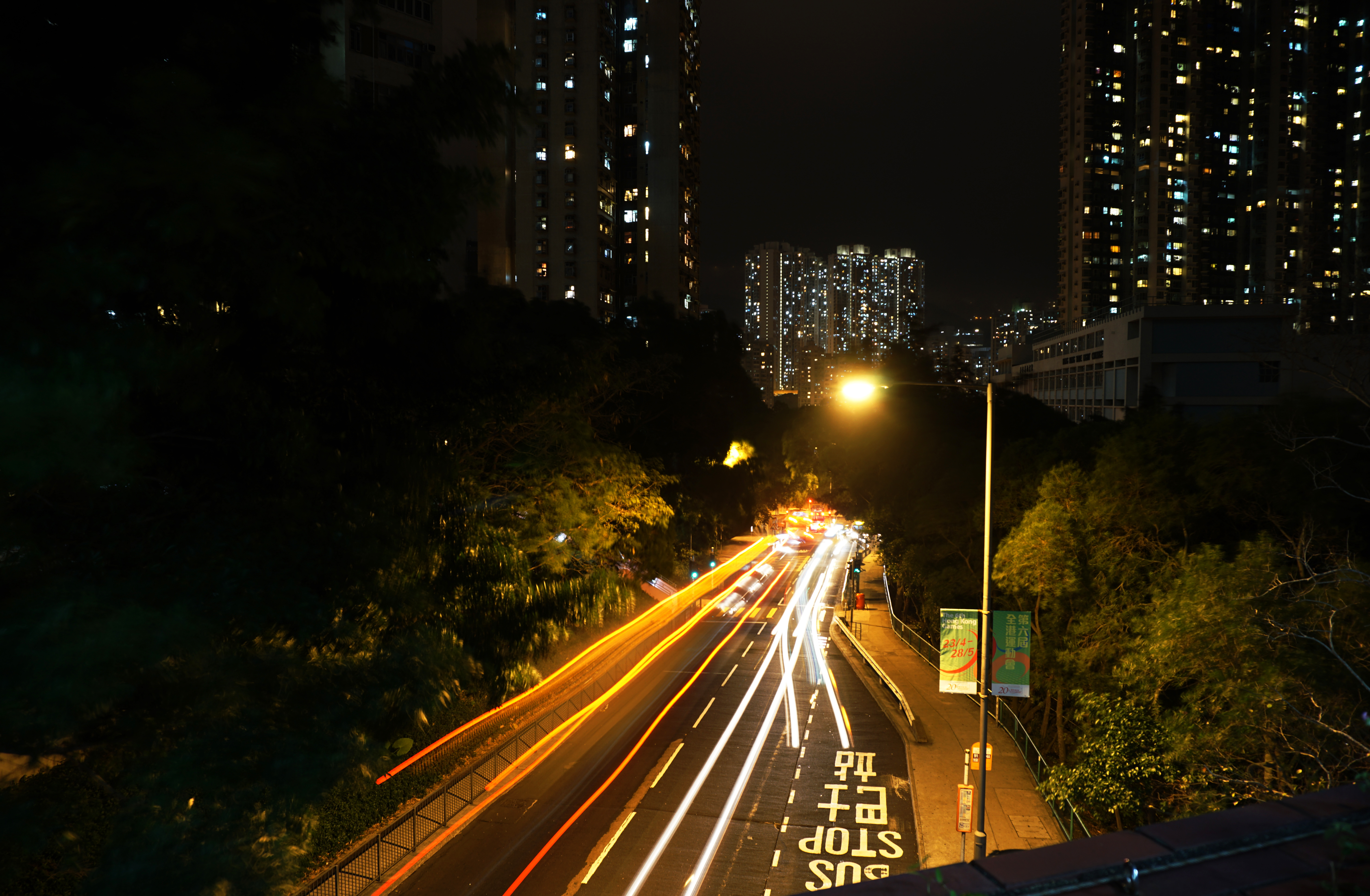 Lei Tung Estate Road in Ap Lei Chau, Hong Kong.